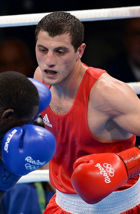 Boxing at the 2016 Summer Olympics, Baghirov vs Cissokho